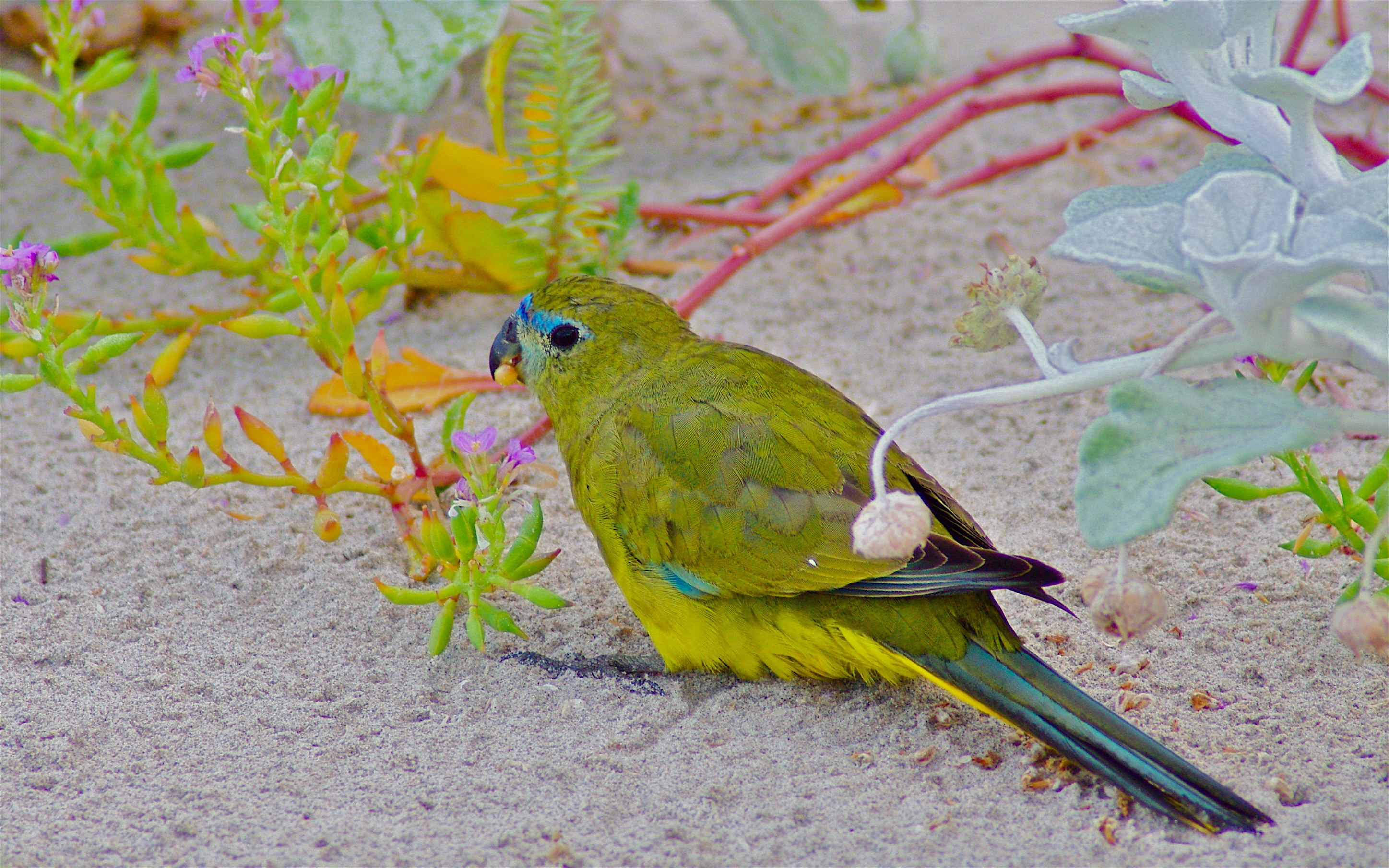 A Rock Parrot at Greens Pool, Western Australia, Australia.